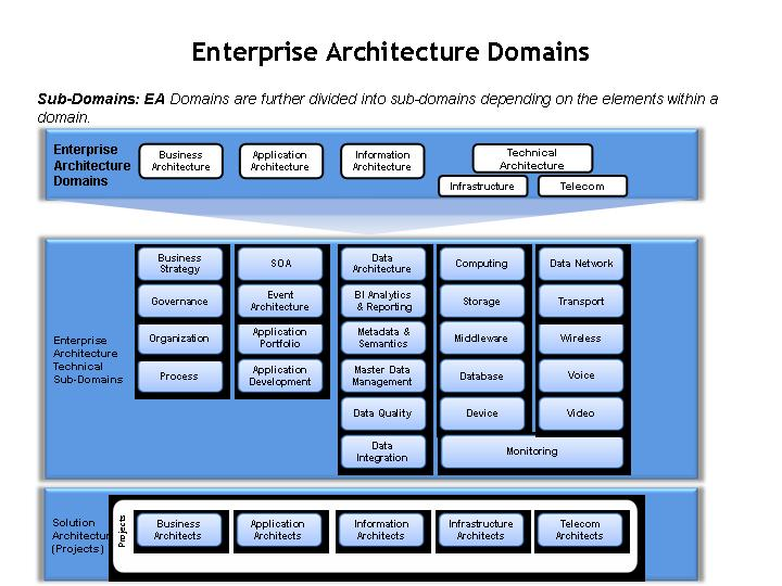 EA Domains: An enterprise architecture’s landscape is usually divided into various domains based on the attributes of the environment and the logical grouping based on Industry EA Frameworks Enterprise Architecture consists of 5 domains Business Application Information Technical (Infrastructure & Telecom)